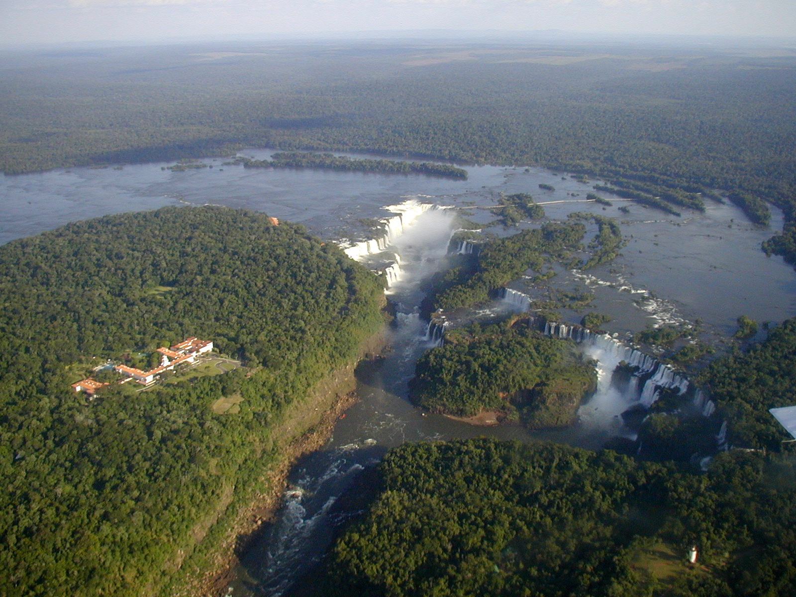 Iguazu Falls, in Misiones (Argentina).